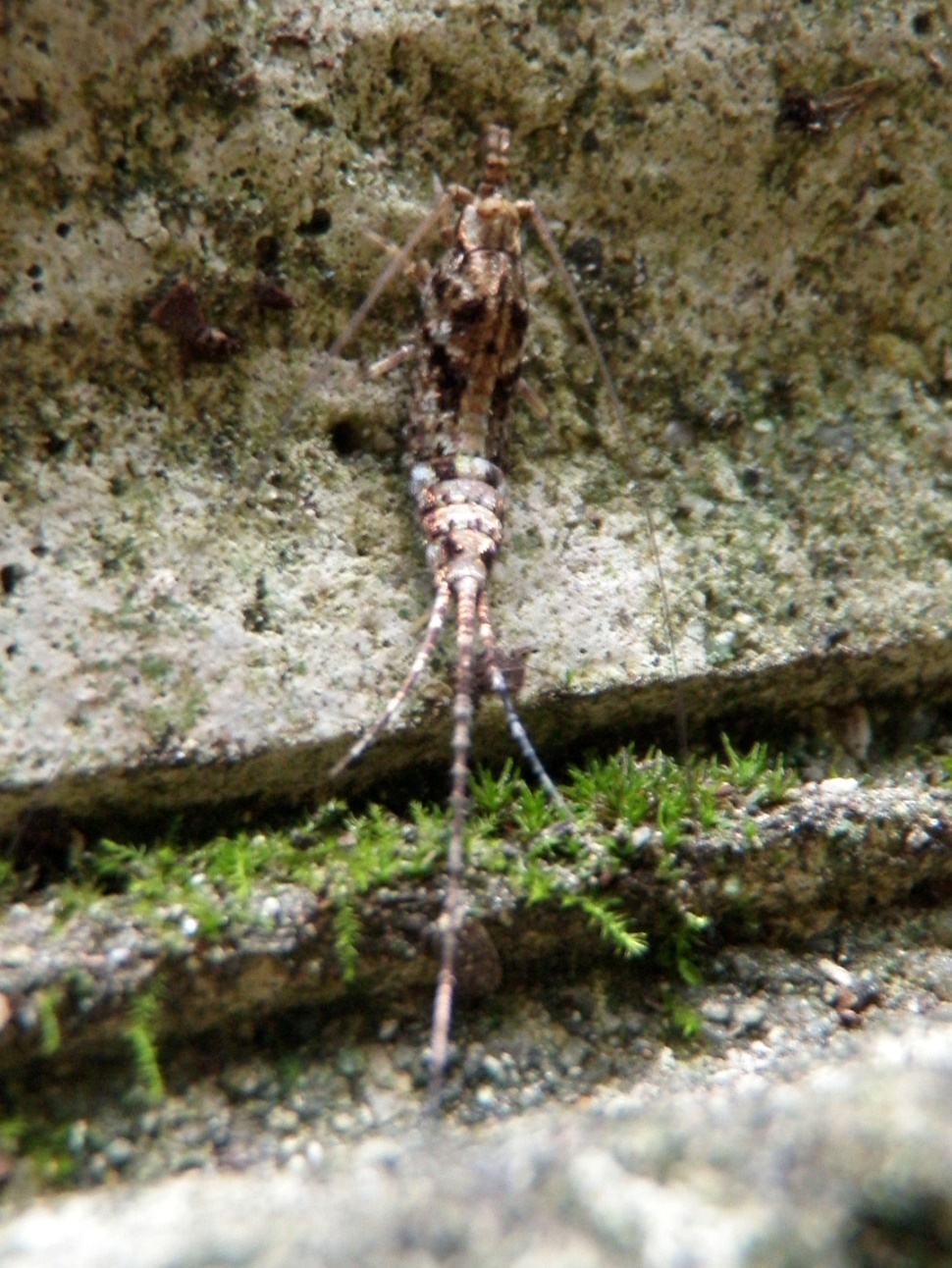 A kind of Machilidae(Archaeognatha), family Machilidae. It must be Pedetontus nipponicus. August, 2009. Kobe, Japan.